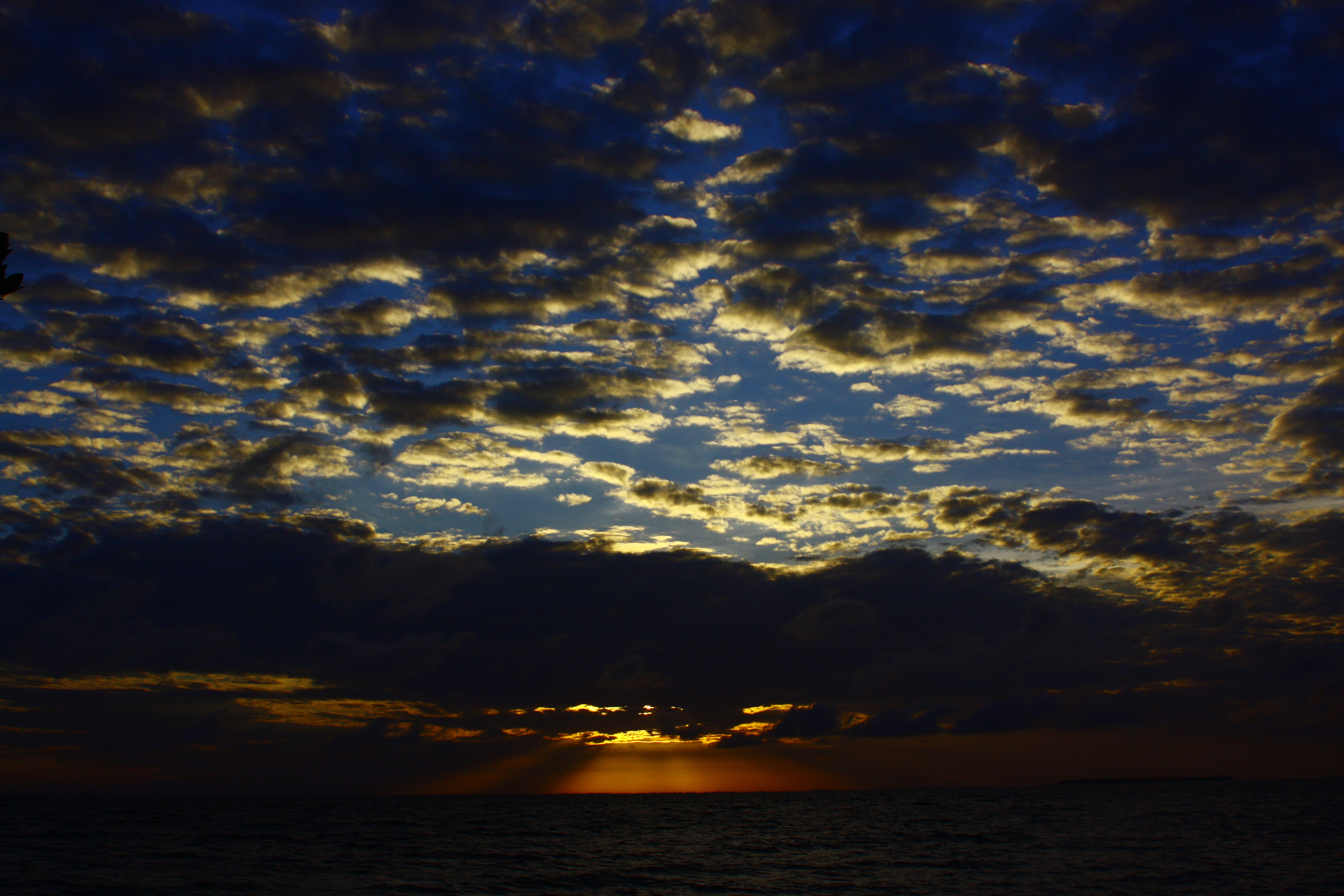 sunrise in tintipan, parque nacional natural corales del rosario